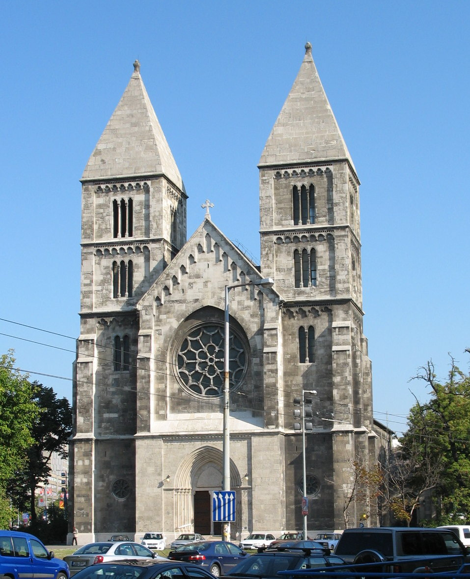 Budapest, Angyalföld. Templom a Lehel téren. Készült Canon A610 tipusú digitális géppel, méret kissebbítés ADSee8. szerkesztővel.